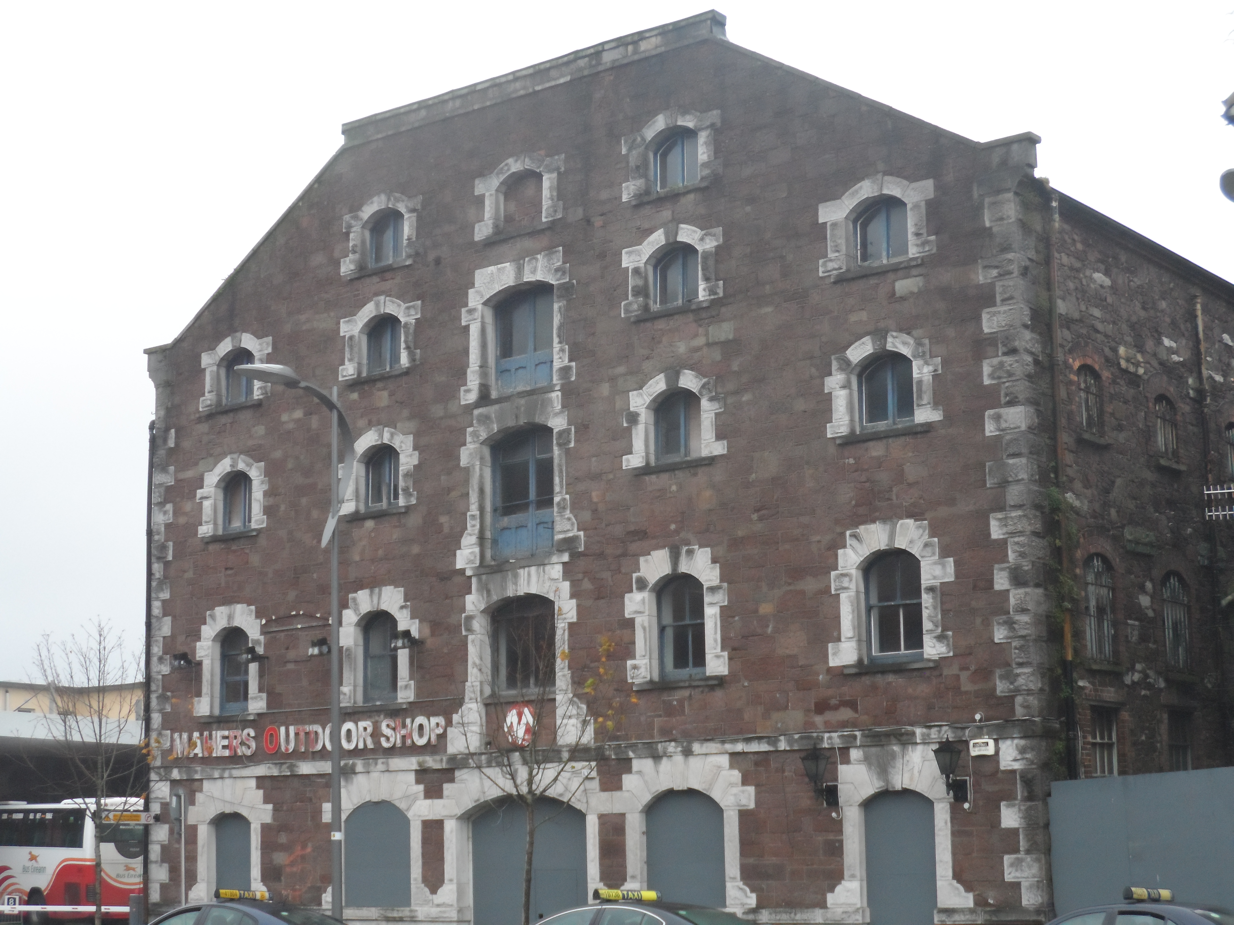 Cork (city) building